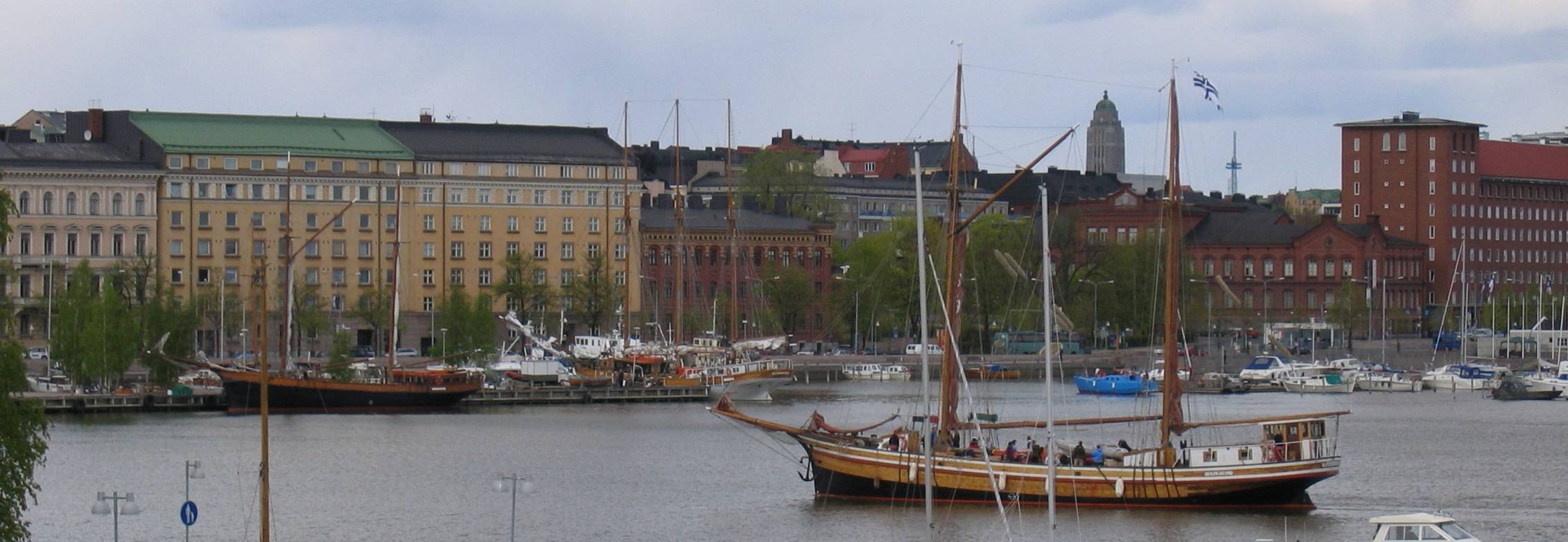 The district of Kruununhaka (Kronohagen) in Helsinki, Finland, as seen from the district of Katajanokka. Photo taken by me. I grant this image to the public domain.